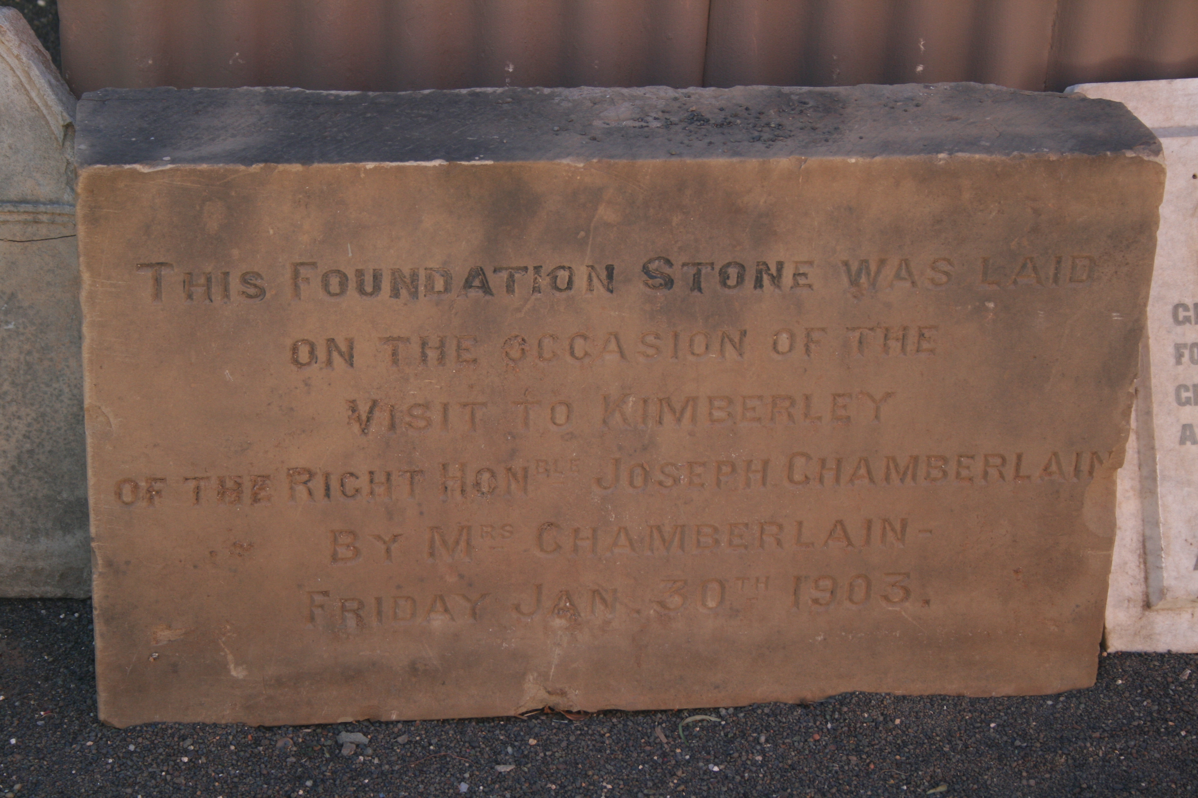 A cornerstone laid by JJoseph Chamberlain and his wife on their tour of South Africa. Located at the Big Hole Museum in Kimberley, South Africa